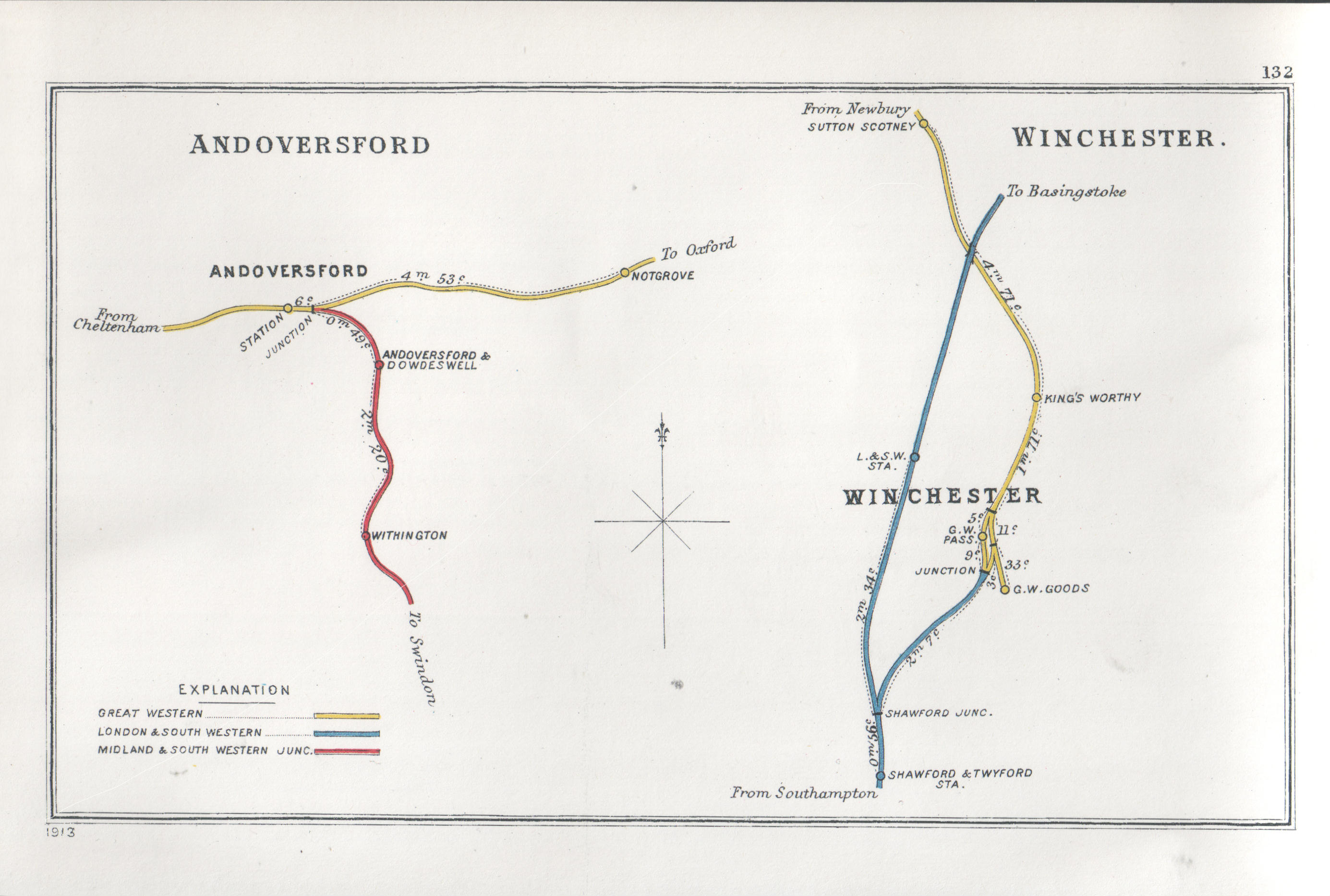 Railway Clearing House Diagram - 132 - Andoversford; Winchester